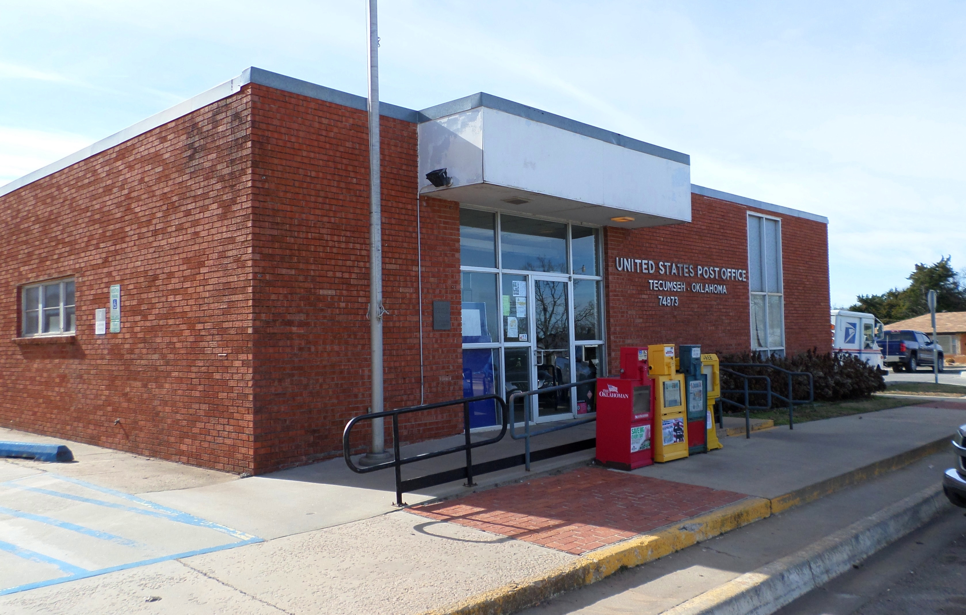 The Tecumseh Post Office, located at 116 W Park St, Tecumseh, OK.